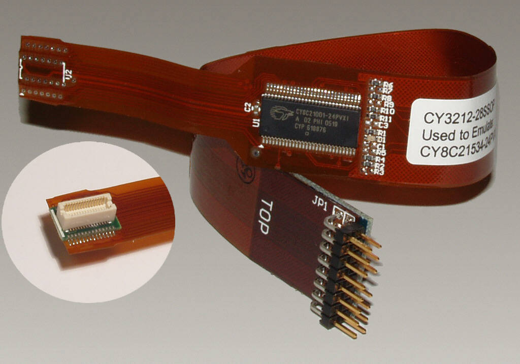 PSoC FlexPod, additional Part for ICE-Cube Emulator